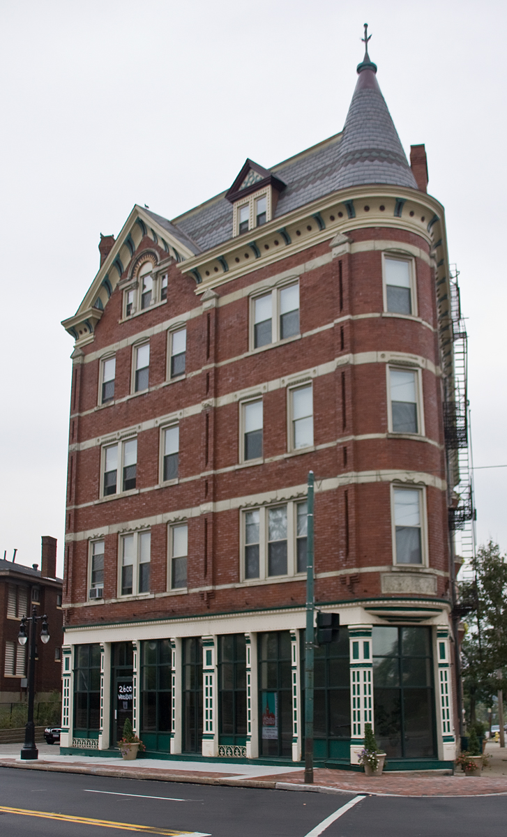 Eckert Building in Cincinnati, OH. Photo by Greg Hume